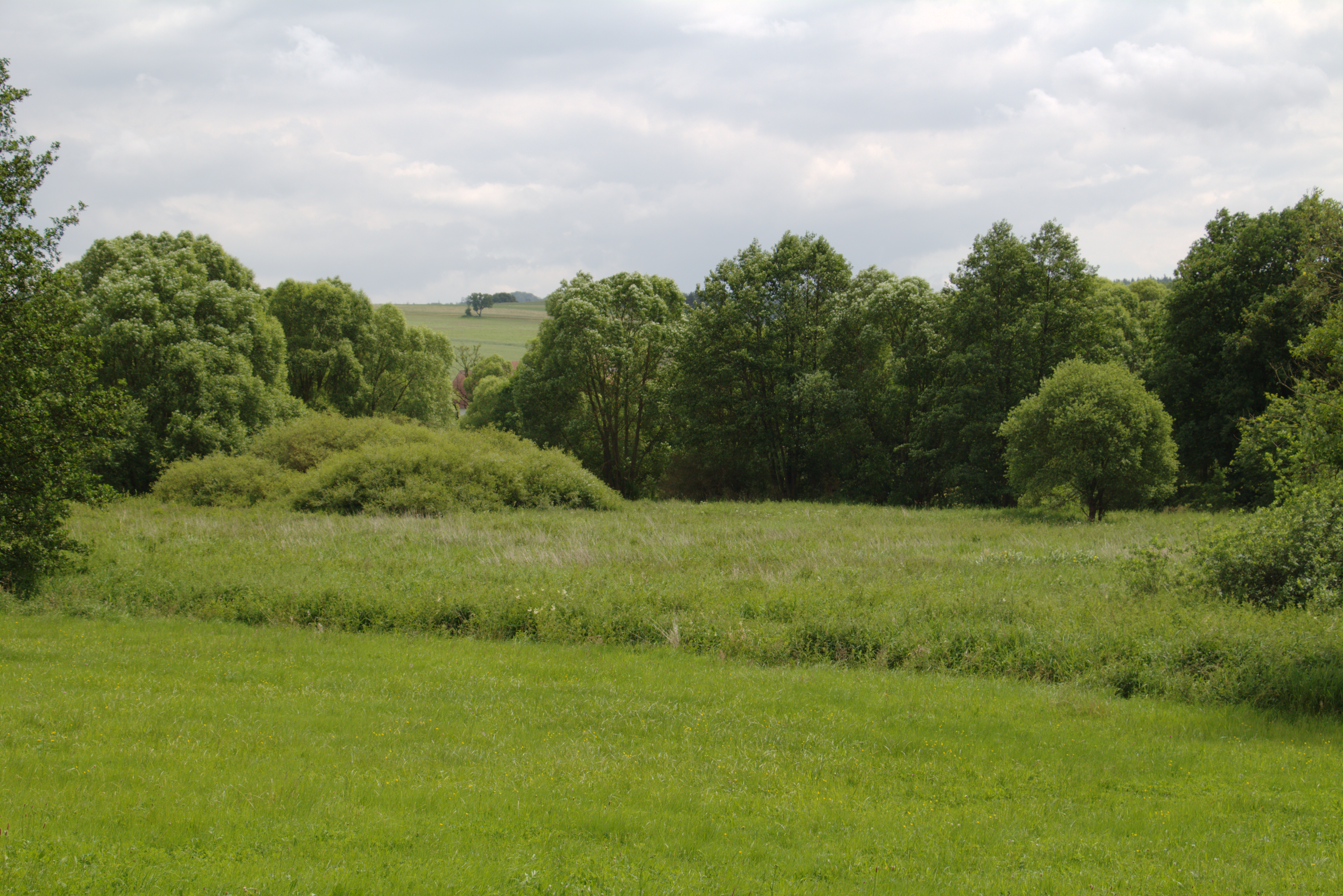 River Lueder "Auenverbund Fulda" Landscape Protection Area near Hainzell, Hosenfeld, Hesse, Germany